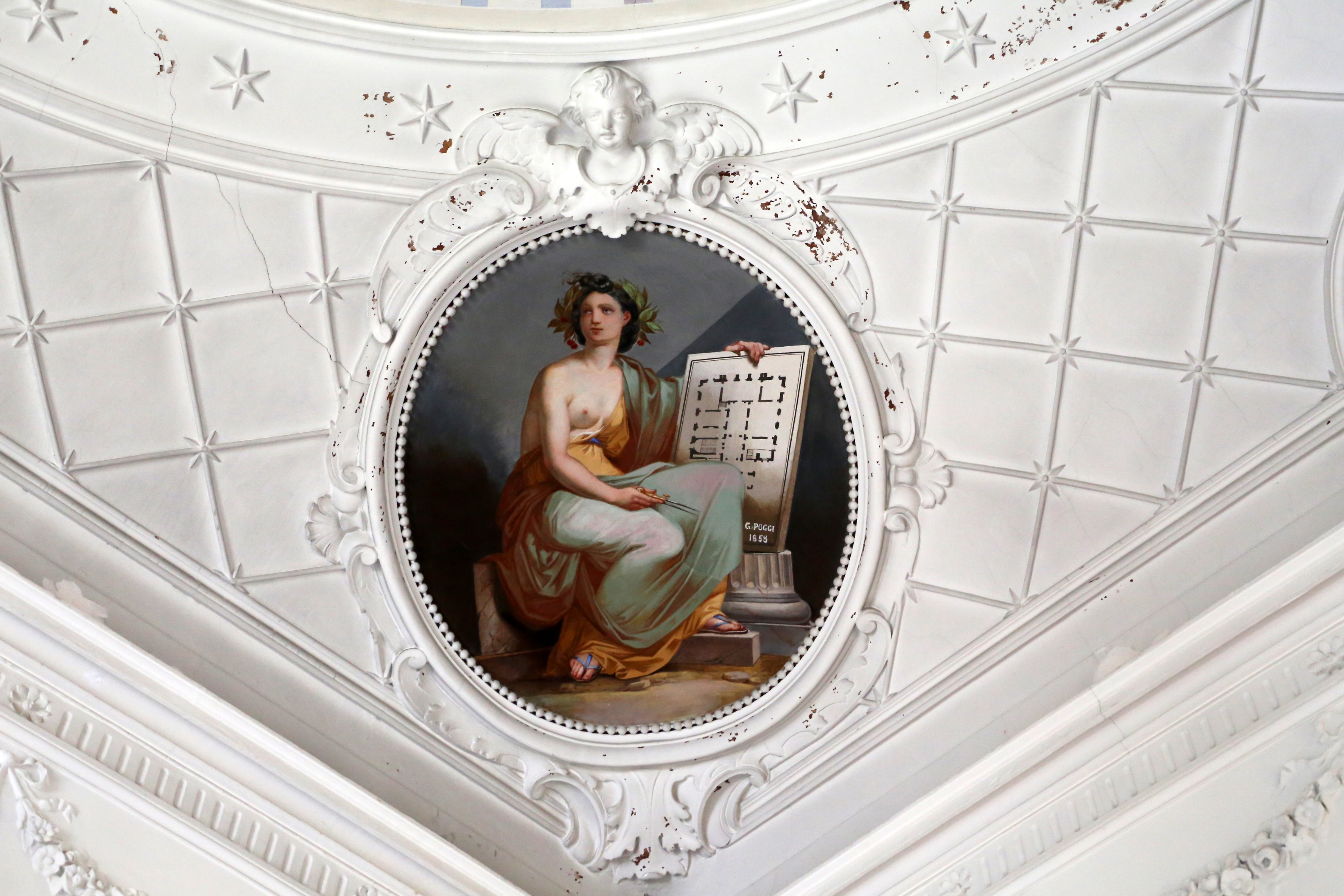 Villa Favard - Interior